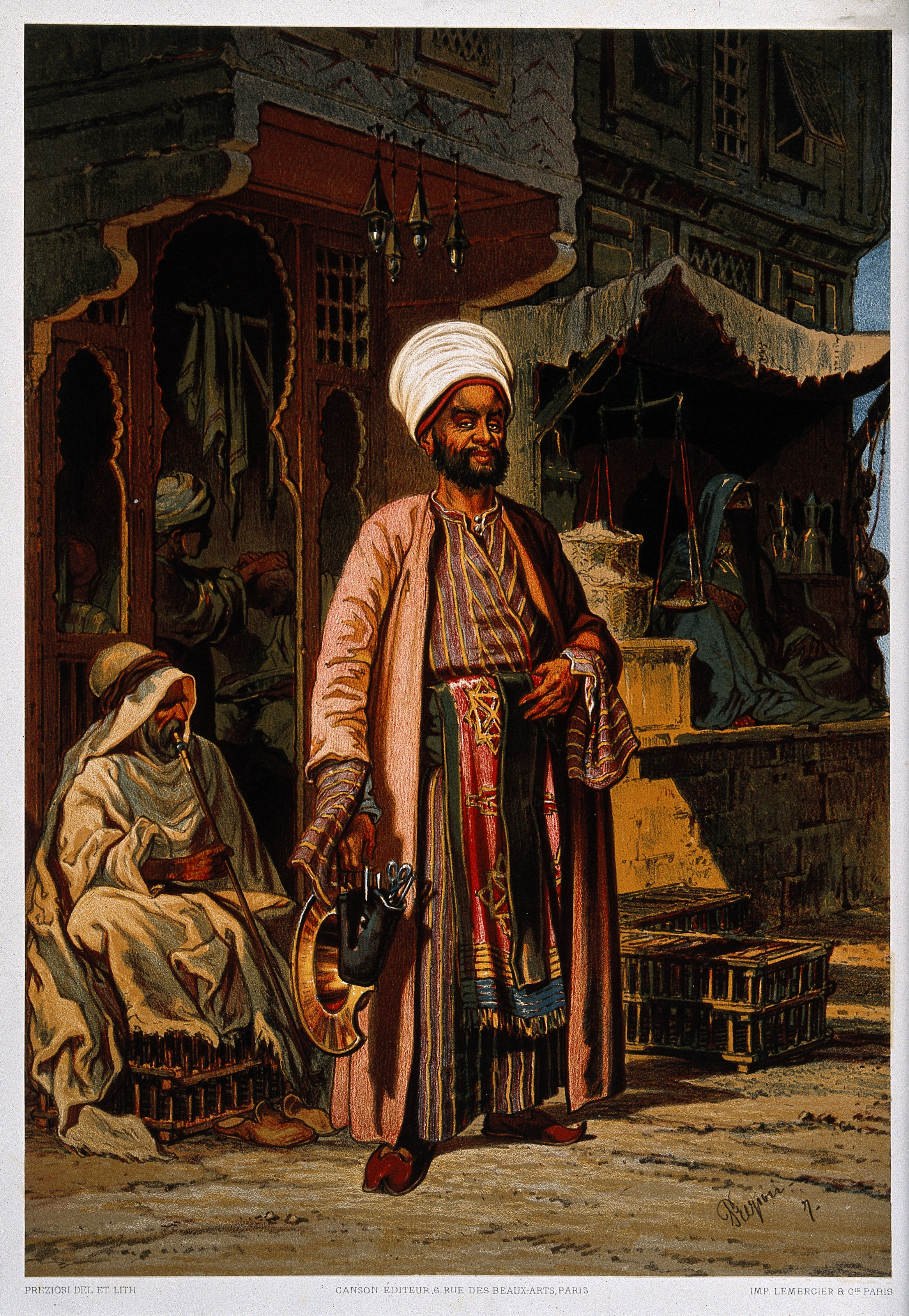 A satisfied customer stands by a drug store on a street in Cairo. Chromolithograph by A. Preziosi, c. 1850, after himself. Iconographic Collections Keywords: Amadeo Preziosi; Lemercier & Cie.